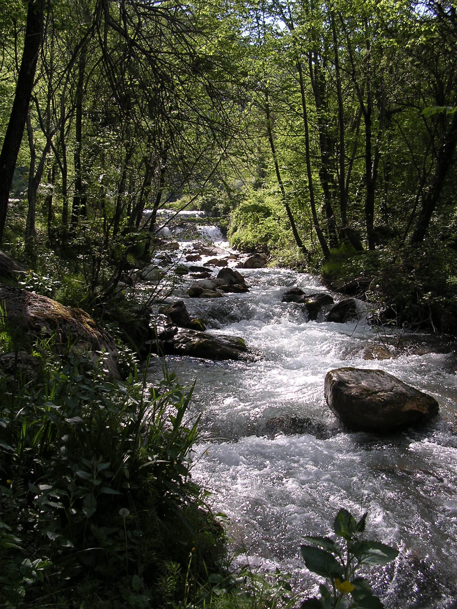 Ambro creek, Monti Sibillini National Park, near Montefortino, Marche, Italy